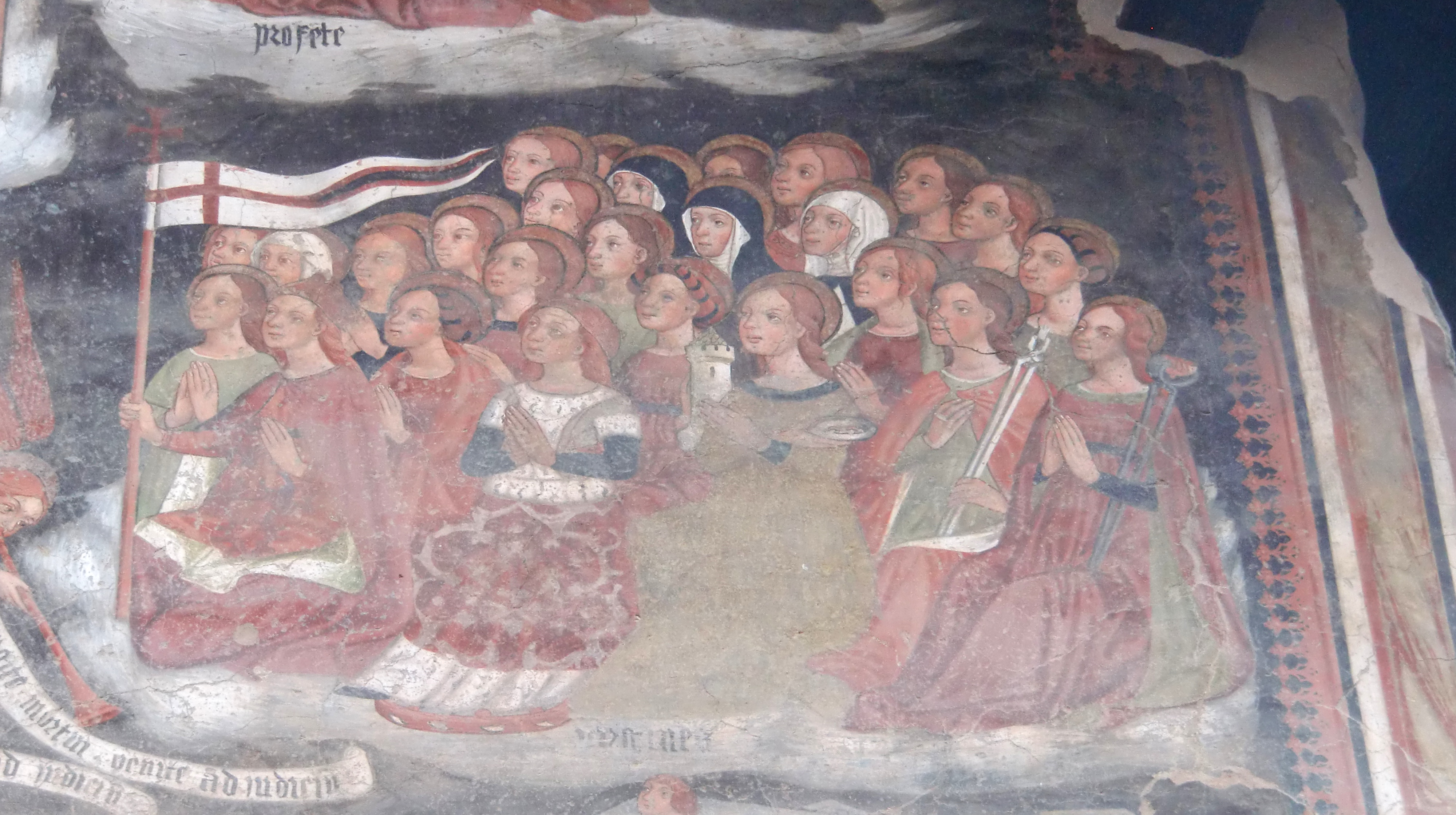 Bartolomeo and Sebastiano Serra, Last Judgment (detail), fresco, 1480-90, Cappella di Sant'Antonio abate, Sauze d'Oulx, Jouvenceaux (To)